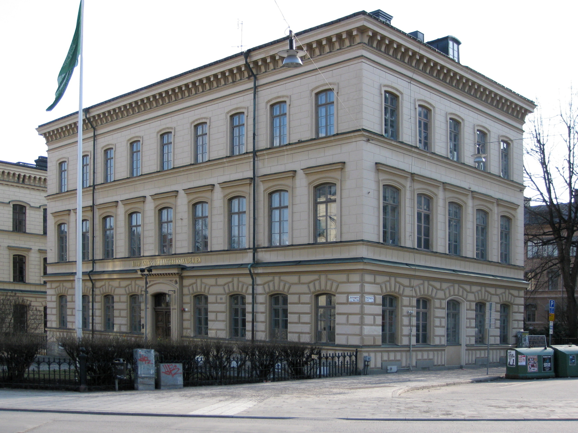 Royal Swedish Academy of Agriculture and Forestry, Stockholm, Sweden.